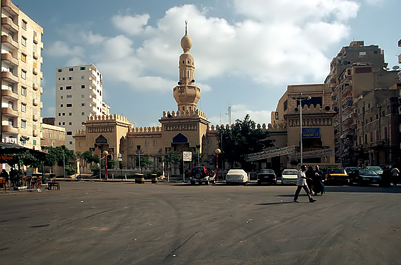 El-Nahda mosque, Abu Qir, Egypt